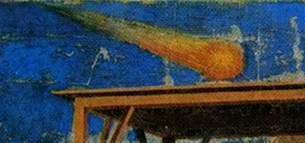 Life of the Virgin